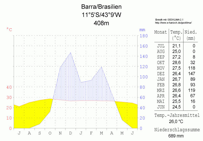 climate chart in the format by Walther and Lieth, metric, °Celsisus and millimeters, made with Geoklima 2.1